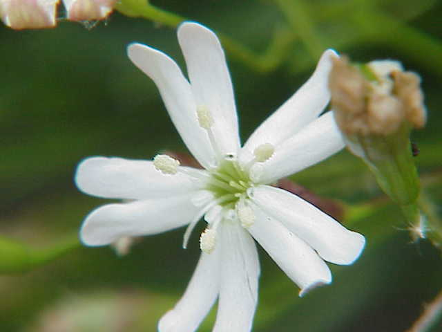 Species: Silene saxifraga Family: Caryophyllaceae Image No. 2